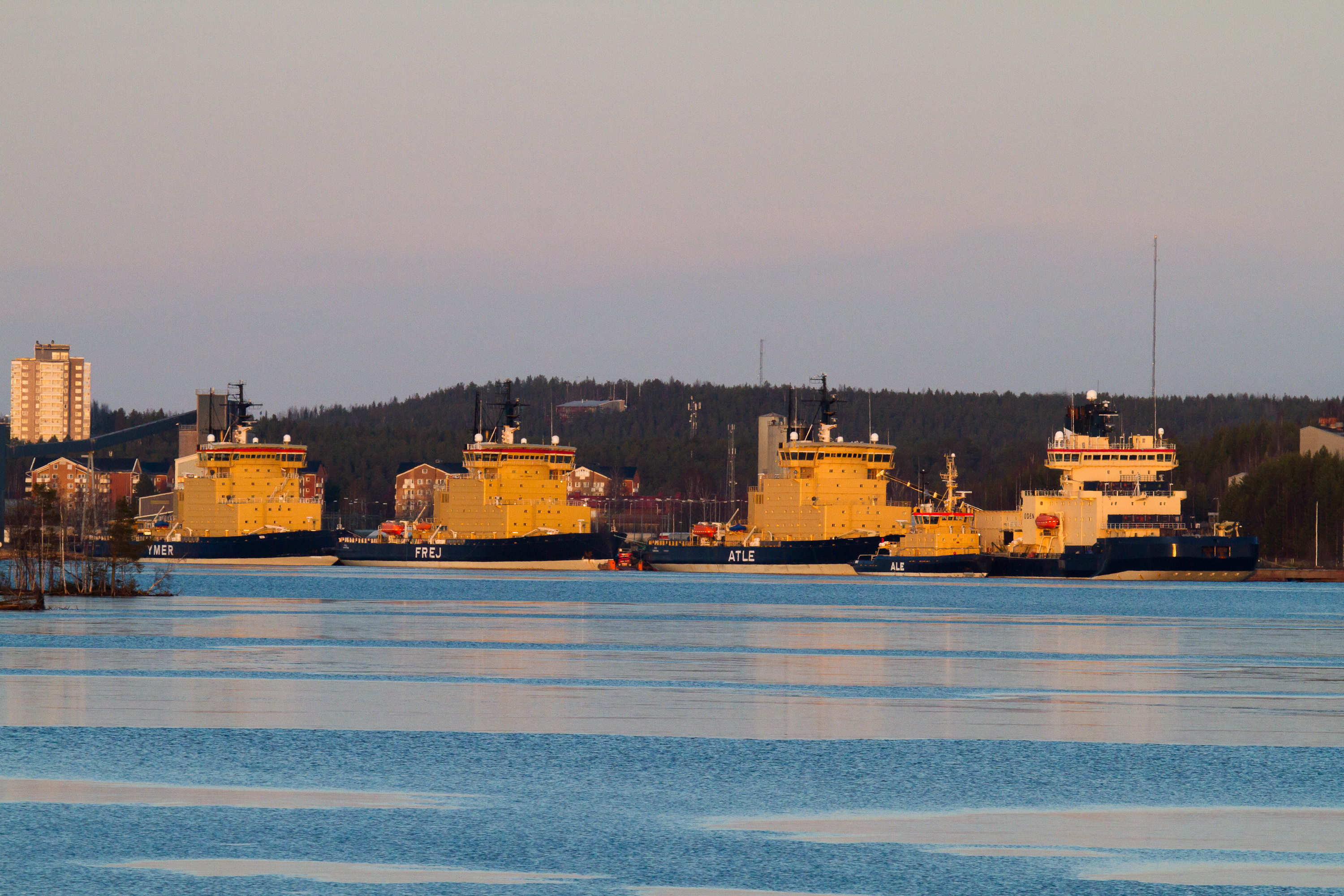 Swedish icebreakers Ymer, Frej, Atle, Ale and Oden in Luleå harbour, Sweden.